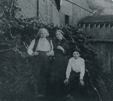 George Dury (1817-1894), Catherine Schaefer Dury (c. 1830-?), and grandson George Dury Brengelman (1873-?) in garden. Tennessee State Library and Archives